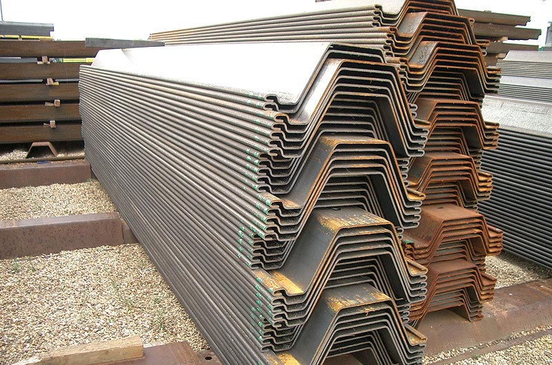 Pile sheets Omega 8 from SBH Tiefbautechnik.